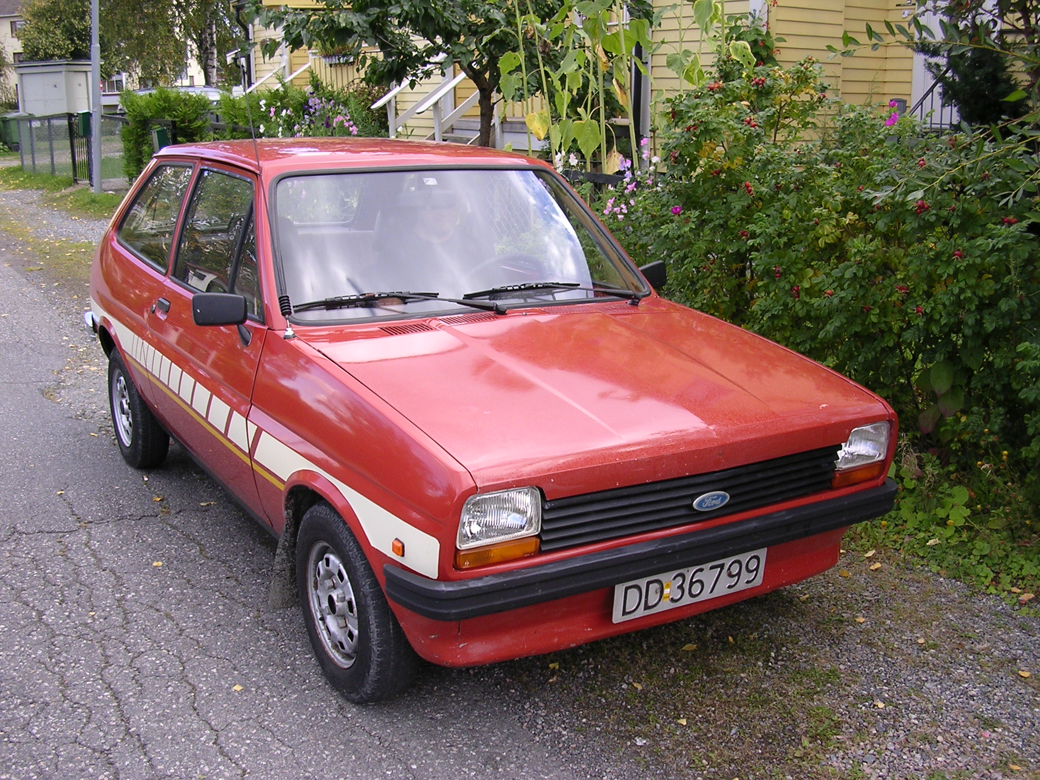 Ford Fiesta Festival in 2003, re-uploaded because the old picture had a blurred front sign